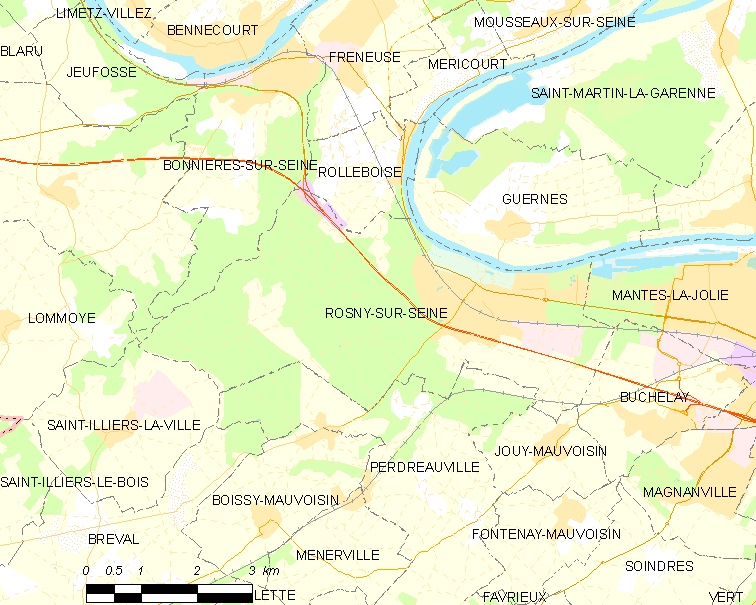 Map of French municipality Rosny-sur-Seine